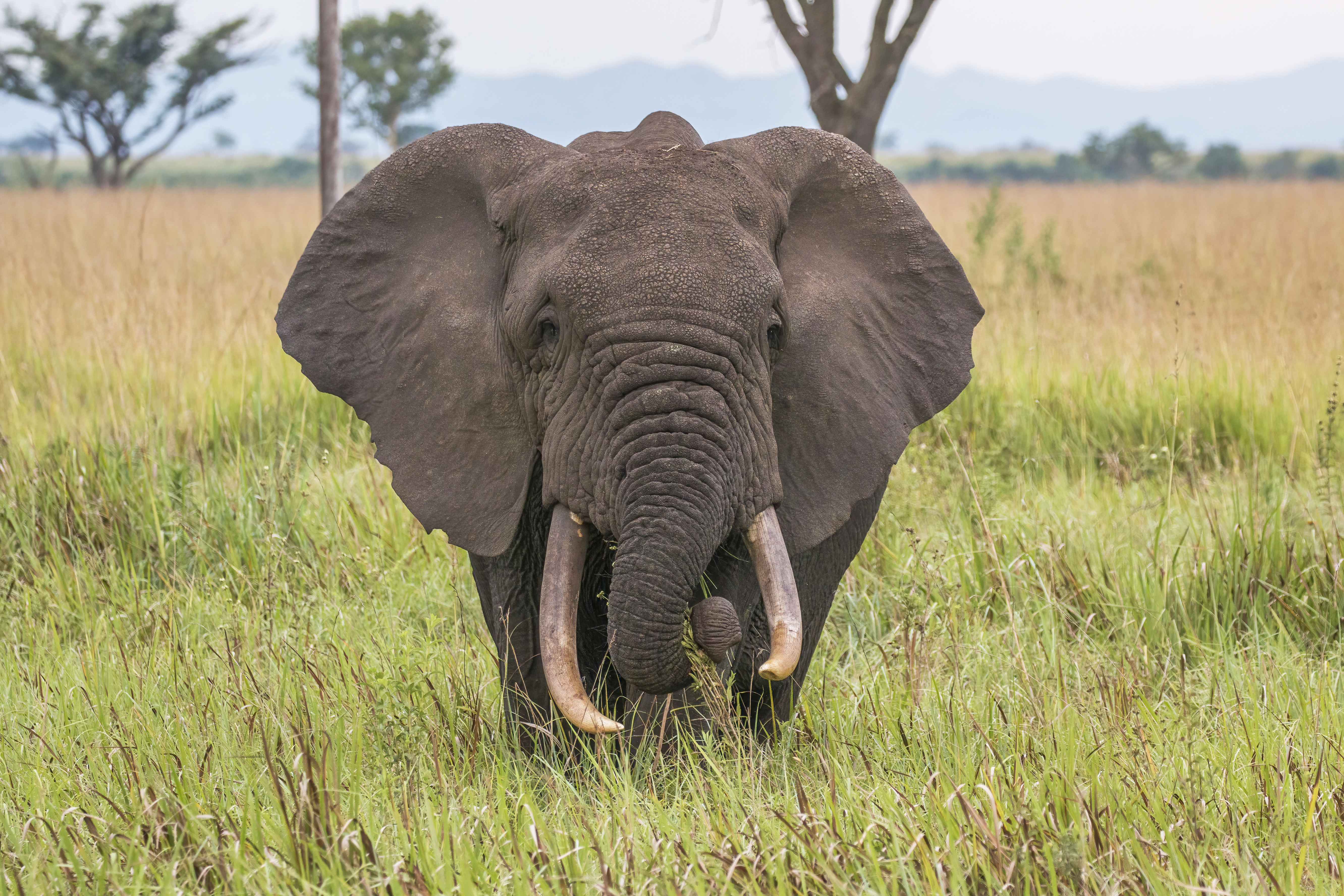 African elephant (Loxodonta africana), Queen Elizabeth Park, Uganda